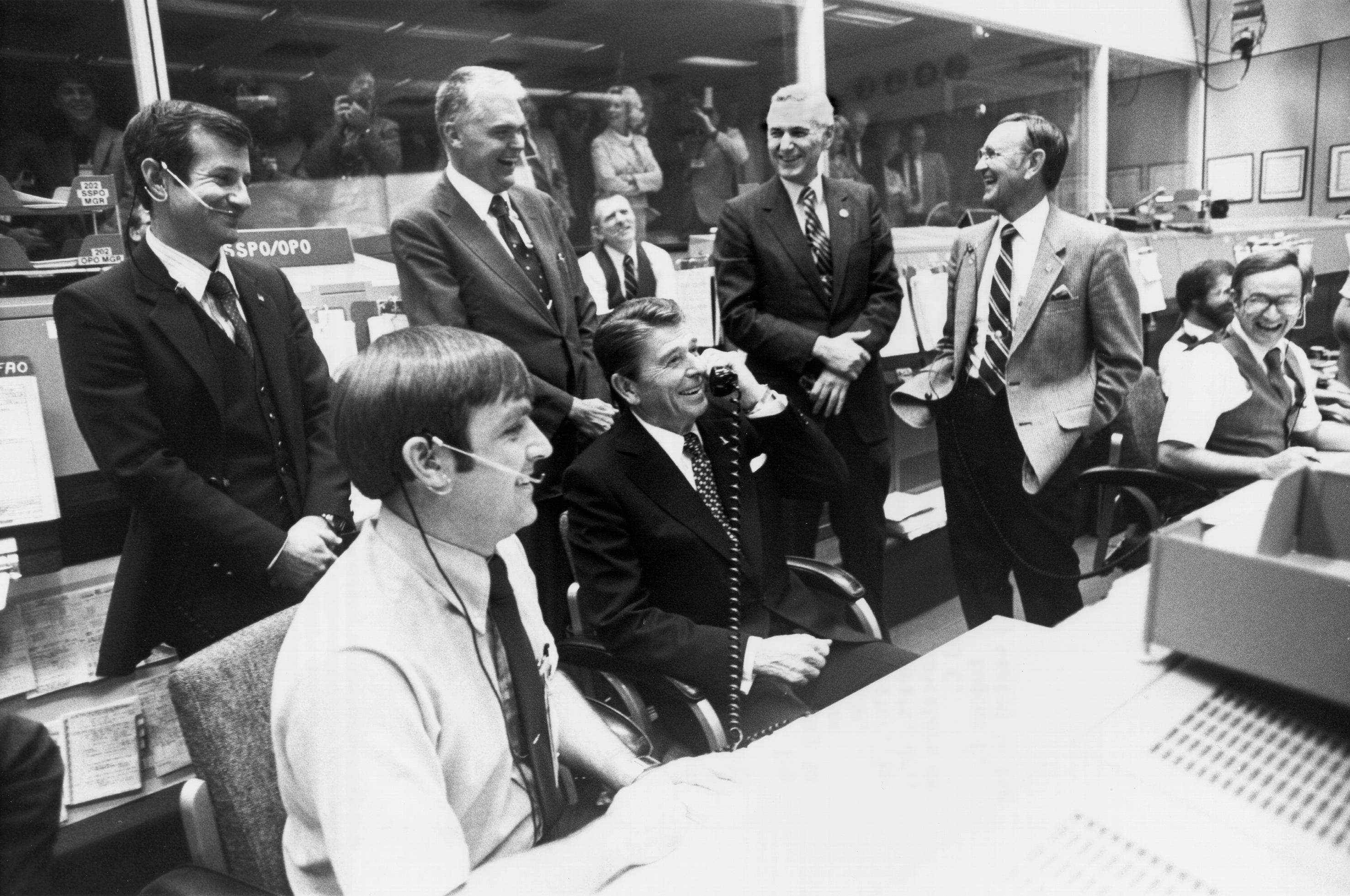 President Ronald Reagan gets a laugh from NASA officials in Mission Control when he jokingly asks crew members, astronauts Joe Engle and Richard Truly if they could stop by Washington en route to their California landing site in order that he might come along. The STS-2 crew was in their next to last day on orbit when the conversation took place. From left to right standing: Terry J. Hart, NASA Deputy AdministratorDr. Hans Mark, NASA AdministratorJames M. Beggs, JSC DirectorDr. Christopher C. Kraft Jr. From left to right seated: CAPCOM, Astronaut Daniel C. Brandenstein President, Ronald Reagan Directly above the President in the background:JSC Flight Operations Director, Eugene F. Kranz